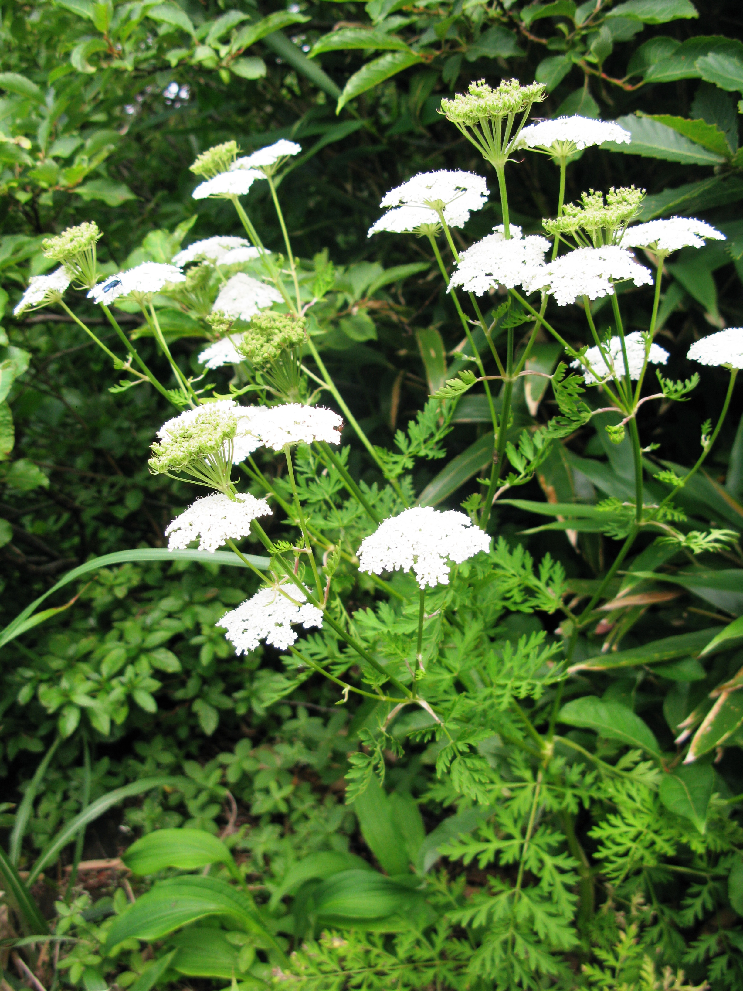 Libanotis coreana, Mt. Bandai, Fukushima pref., Japan